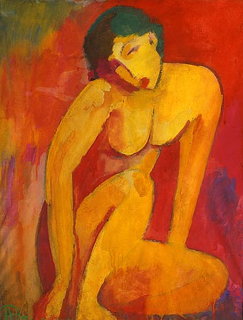 The-beloved. Gouache, 70X50, 1999